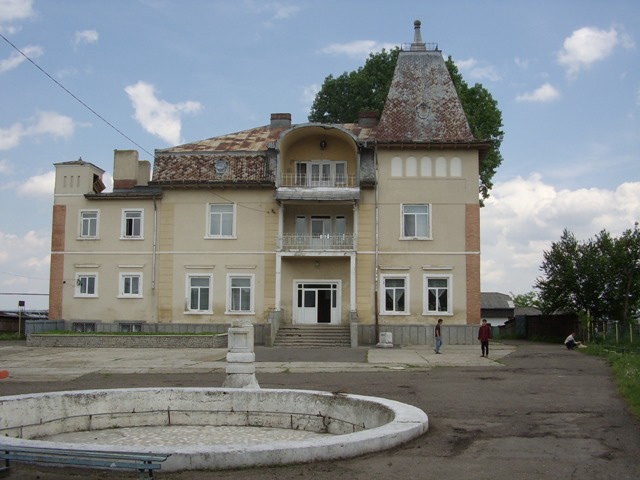 Palatul Sturdza de la Cozmeşti, OTRS 2009071510063876